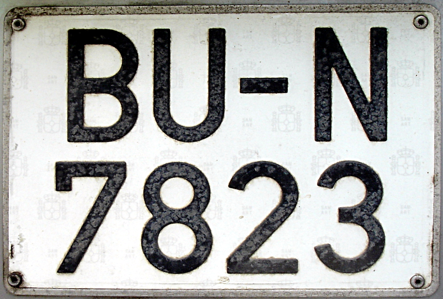 Spanish car registration